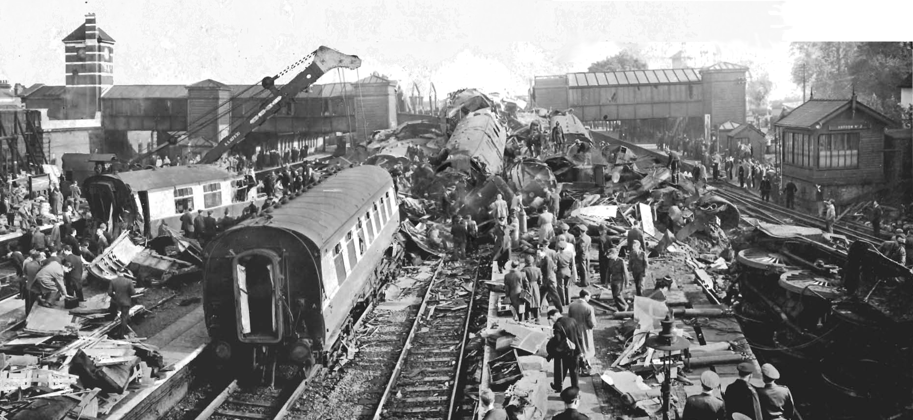 The scene looking south over the aftermath of the Harrow and Wealdstone train crash on 8 October 1952.